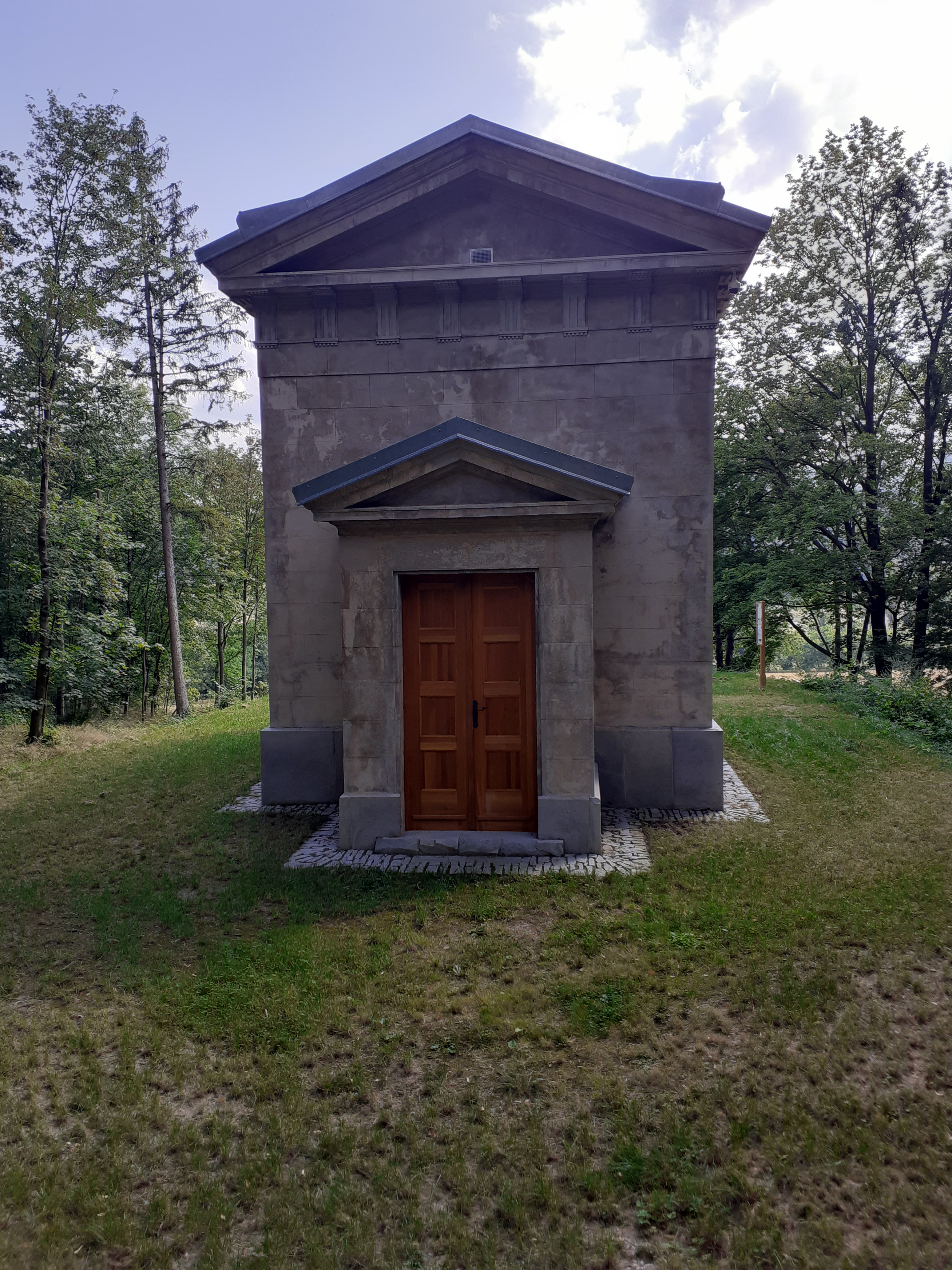 tomb of the family Keil von Eichenthurn